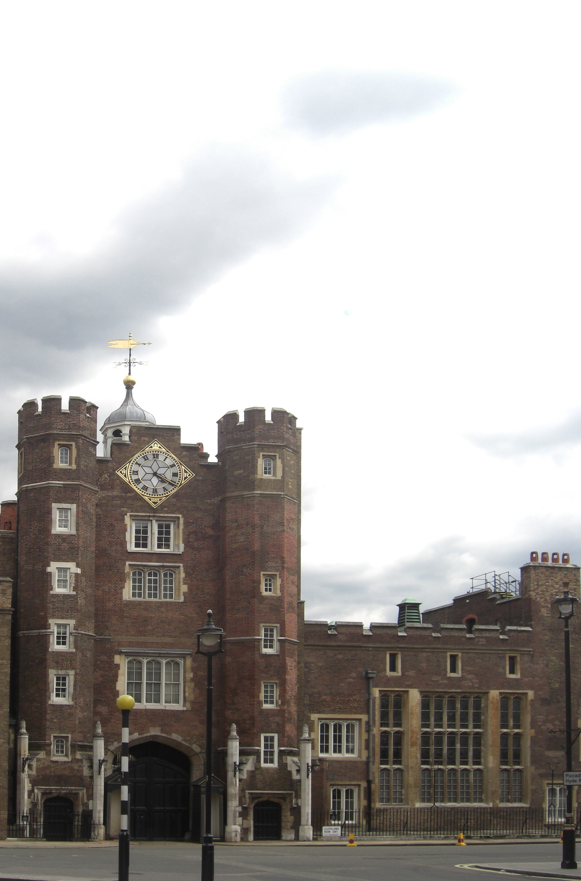 Crop of St James's Palace, Pall Mall, gatehouse 2665083660 The large window on the right is a window of the Chapel Royal